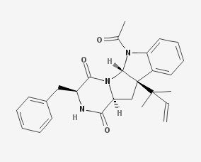 Rugulosuvine B